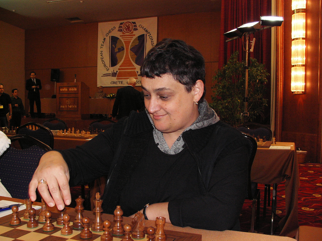 GM Maia Chiburdanidze (Georgia), Heraklion 2007